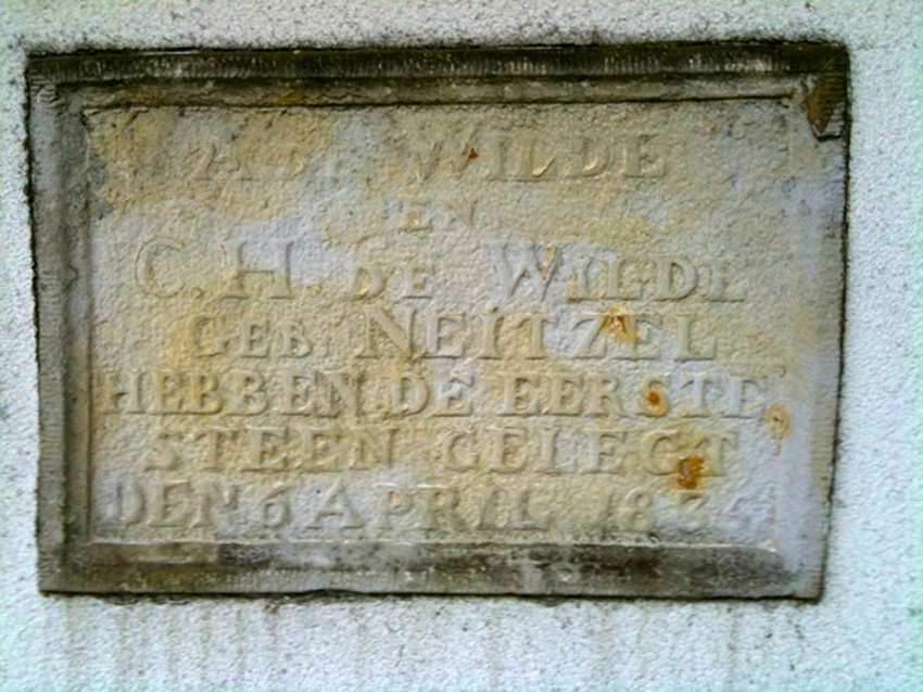 "Eerste" steen van aanbouw Huis Pijnenburg, Andries de Wilde